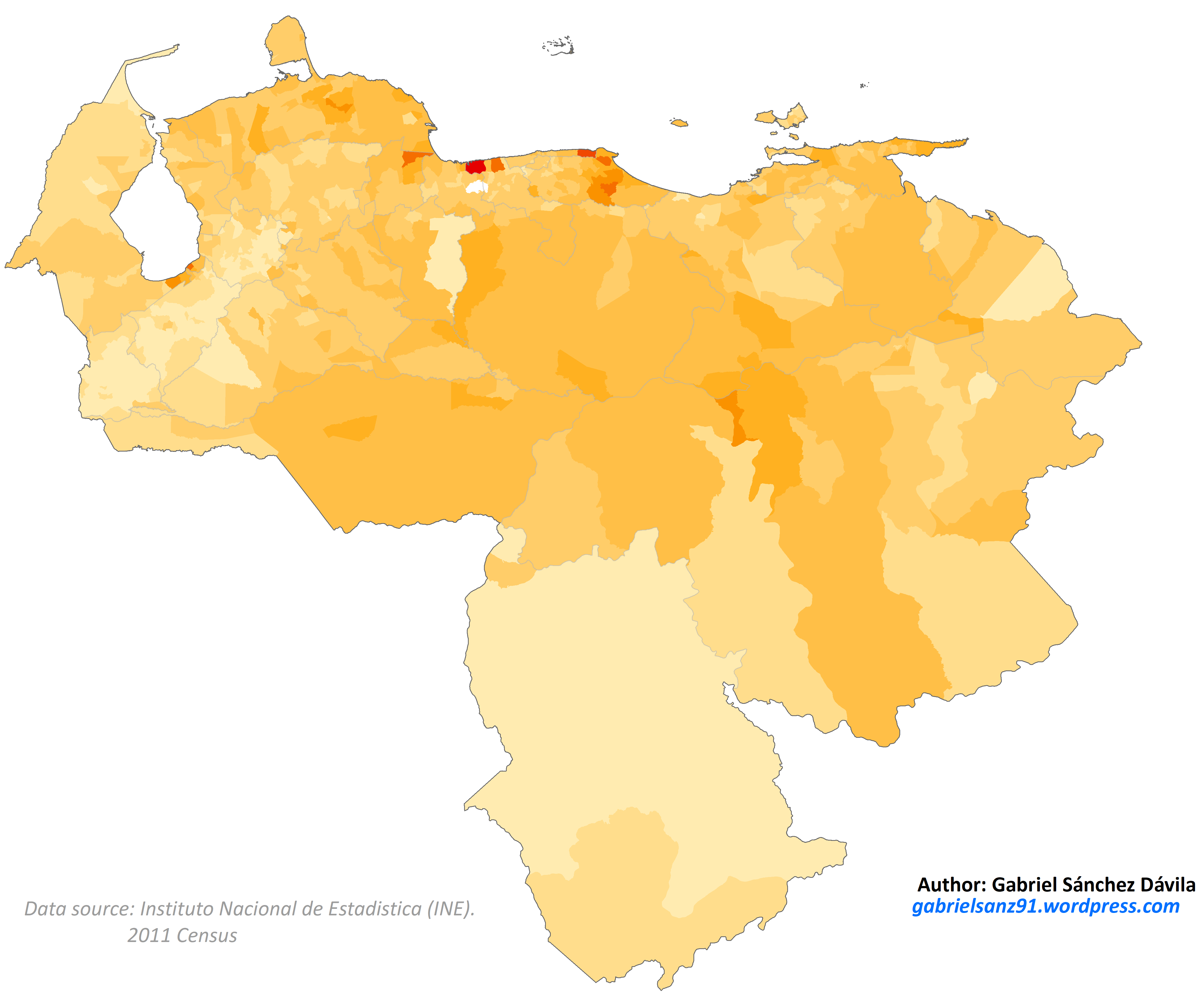 Map showing the proportion of the Venezuelan population described as "Black" and "Afrodescendant" in the 2011 census, at electoral ward level. 60%